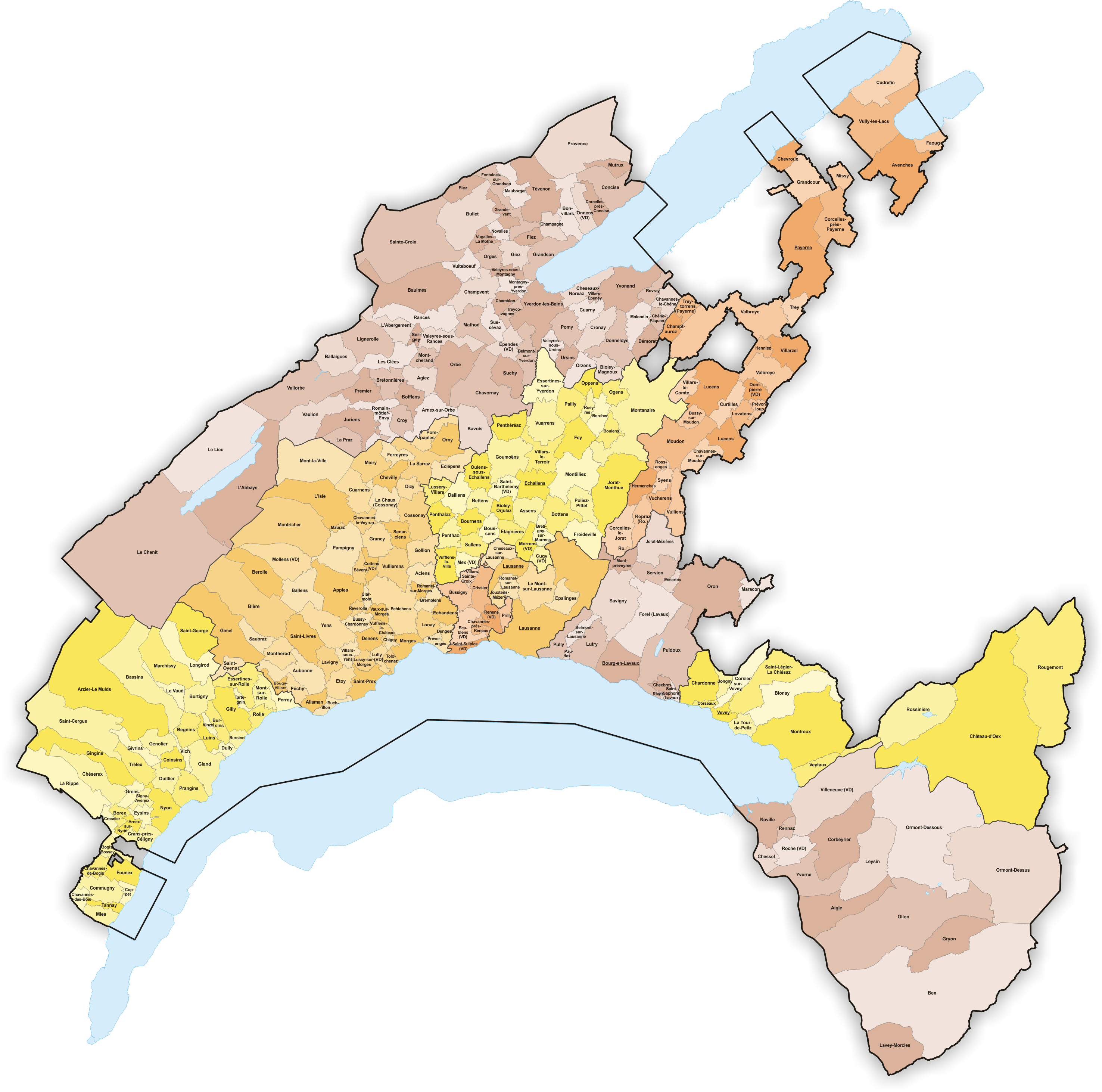 Municipalities in Canton Waadt